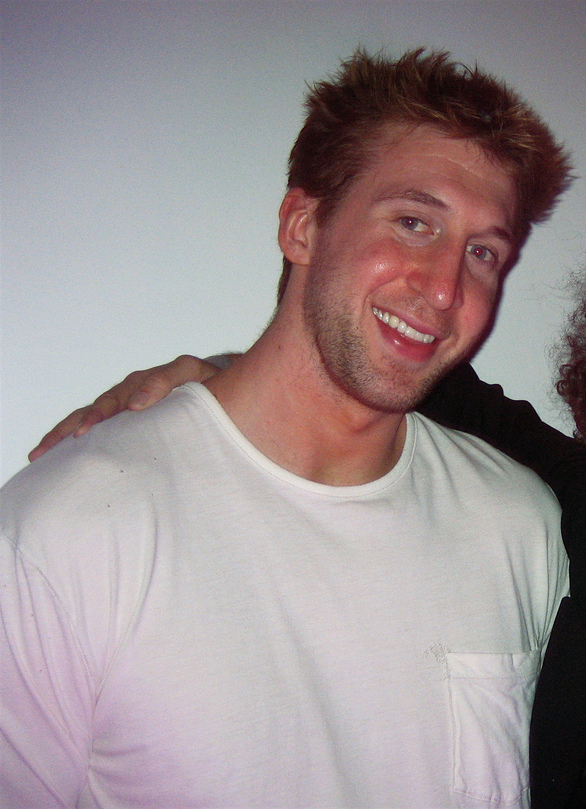 Basketball player Troy Murphy. This file has been extracted from another file: Troy Murphy.jpg